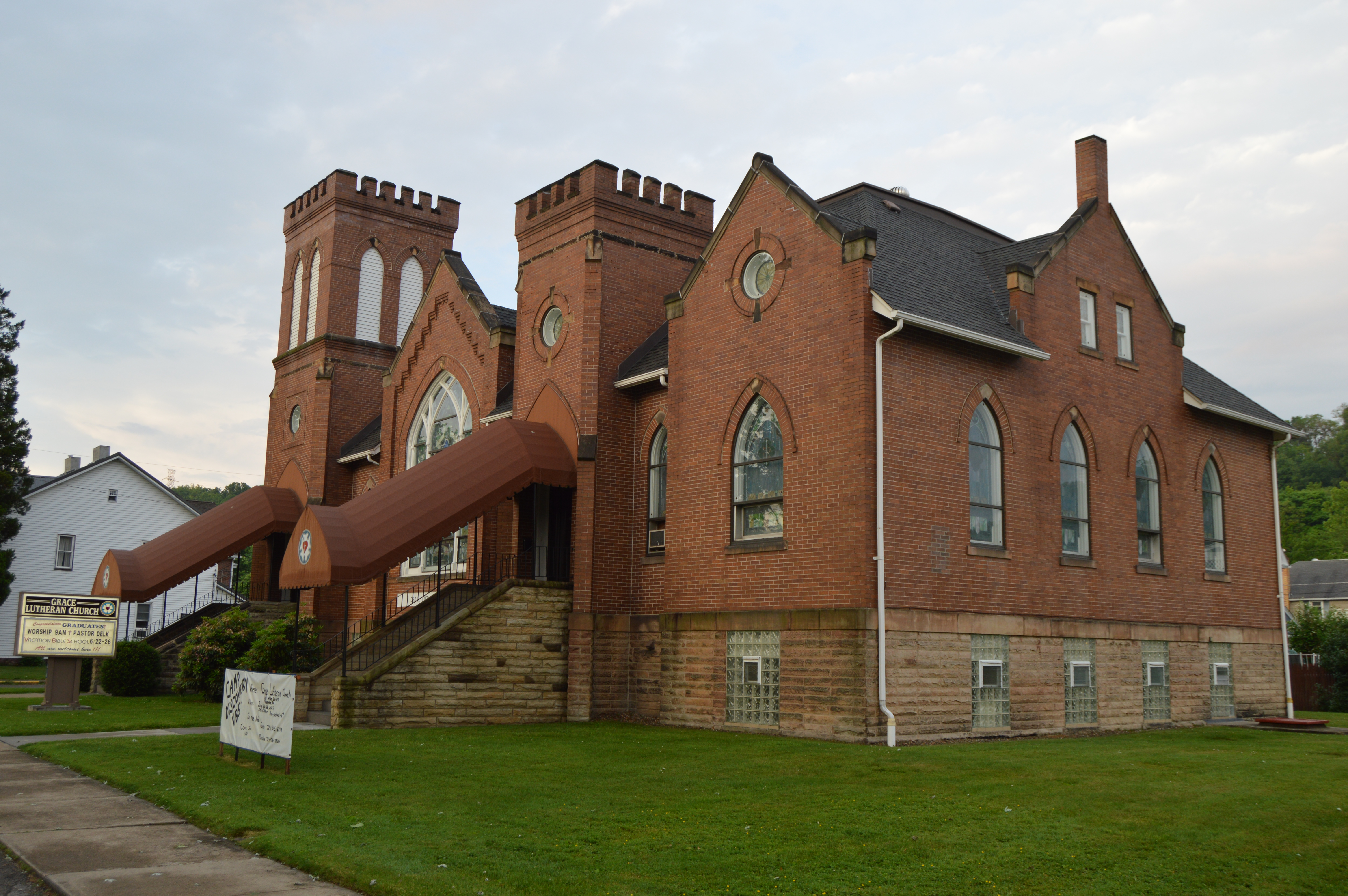 Front and southern side of Grace Lutheran Church, located at the junction of Water and Manor Streets in Manorville, Pennsylvania, United States.